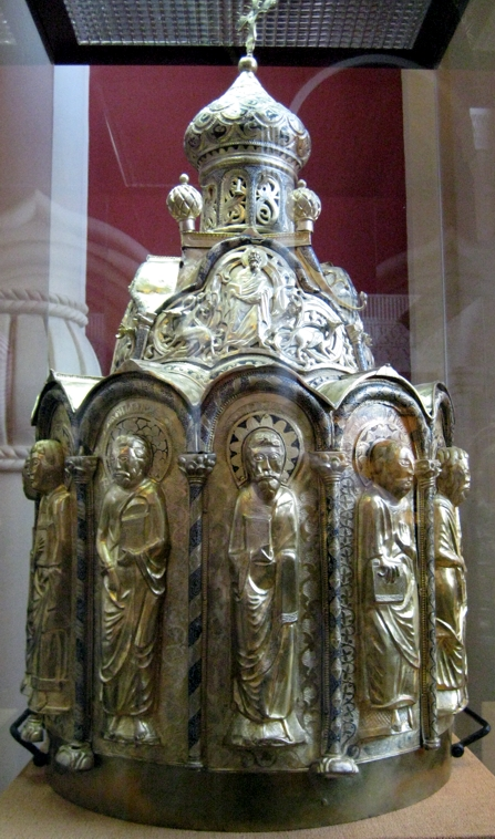 So-called "Zion" (tabernacle) for holy bread. Rusian Orthodox Church. 19th century copy of 1486 metalware, made for Dormition Cathedral, Moscow Kremlin.